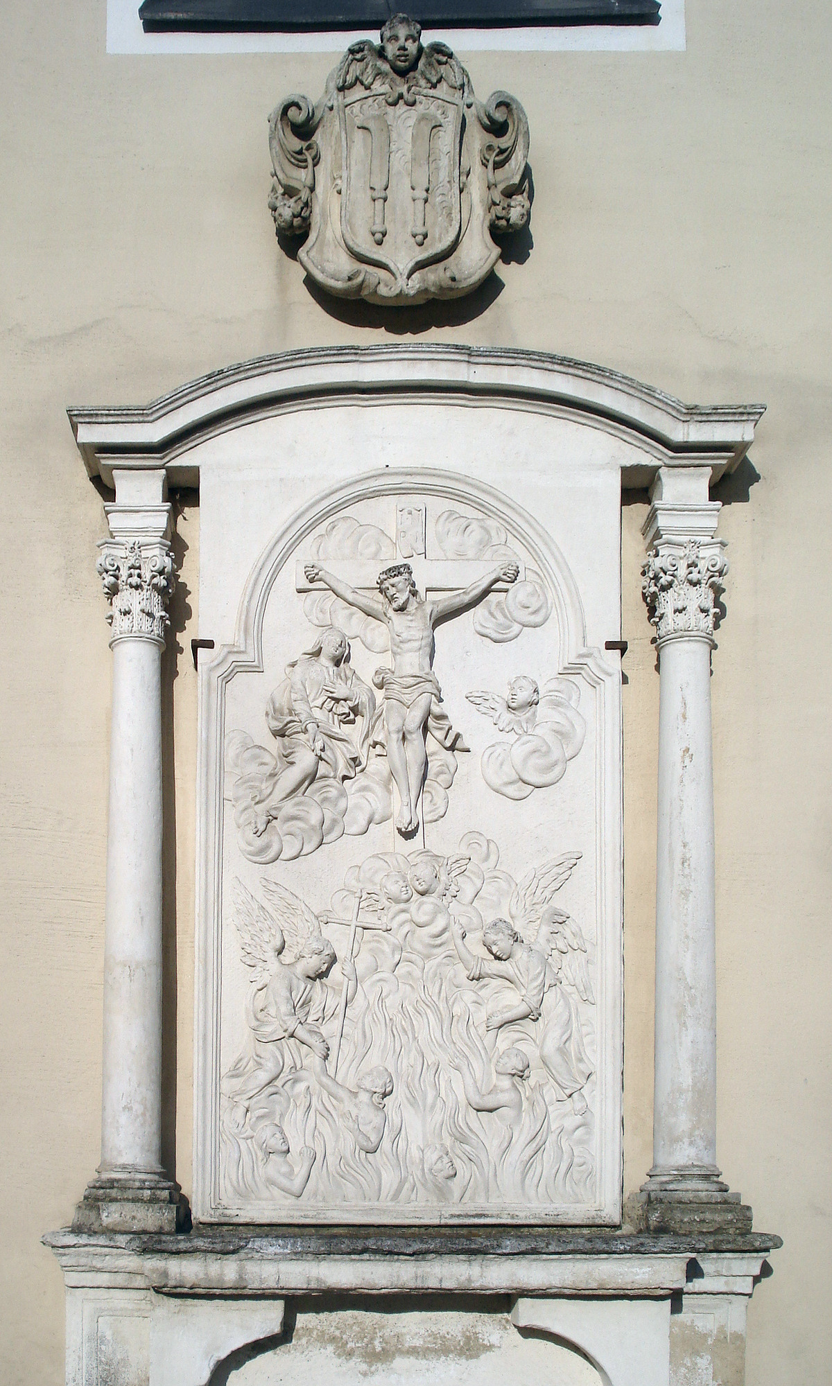 Above: Coat of arms Dietrichstein. Below: purgatory. Parish church Hollabrunn outside, Austria